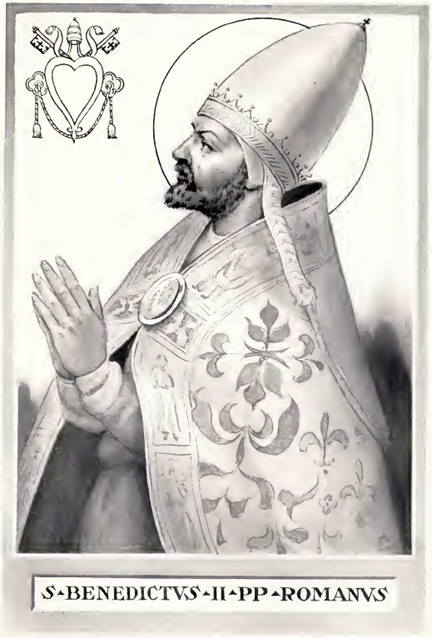 This illustration is from The Lives and Times of the Popes by Chevalier Artaud de Montor, New York: The Catholic Publication Society of America, 1911. It was originally published in 1842.